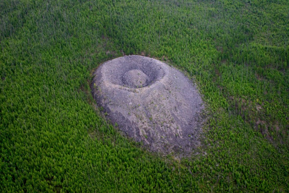 Patomsky crater – view from a helicopter